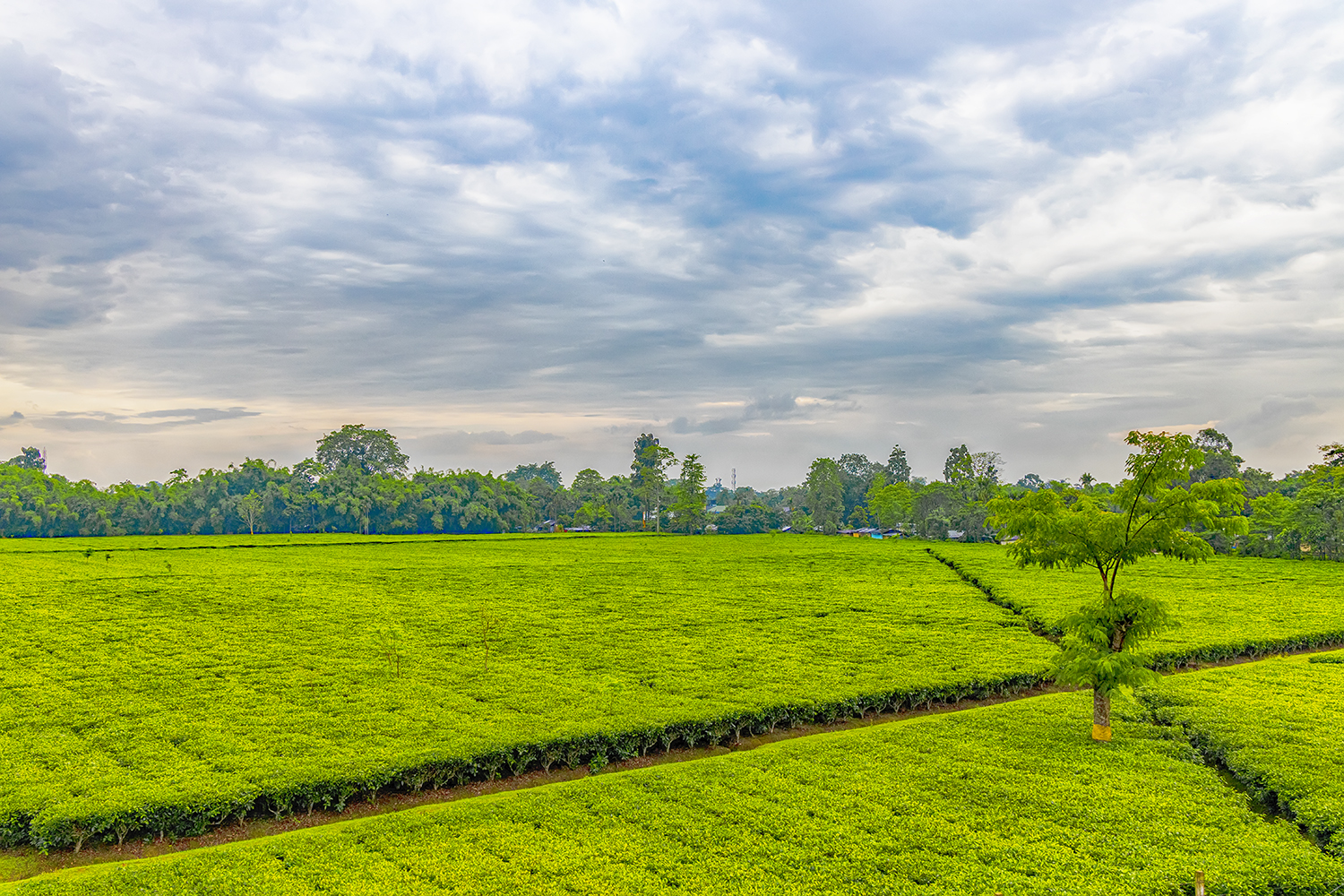 Tea garden of Assam, Assam Tea